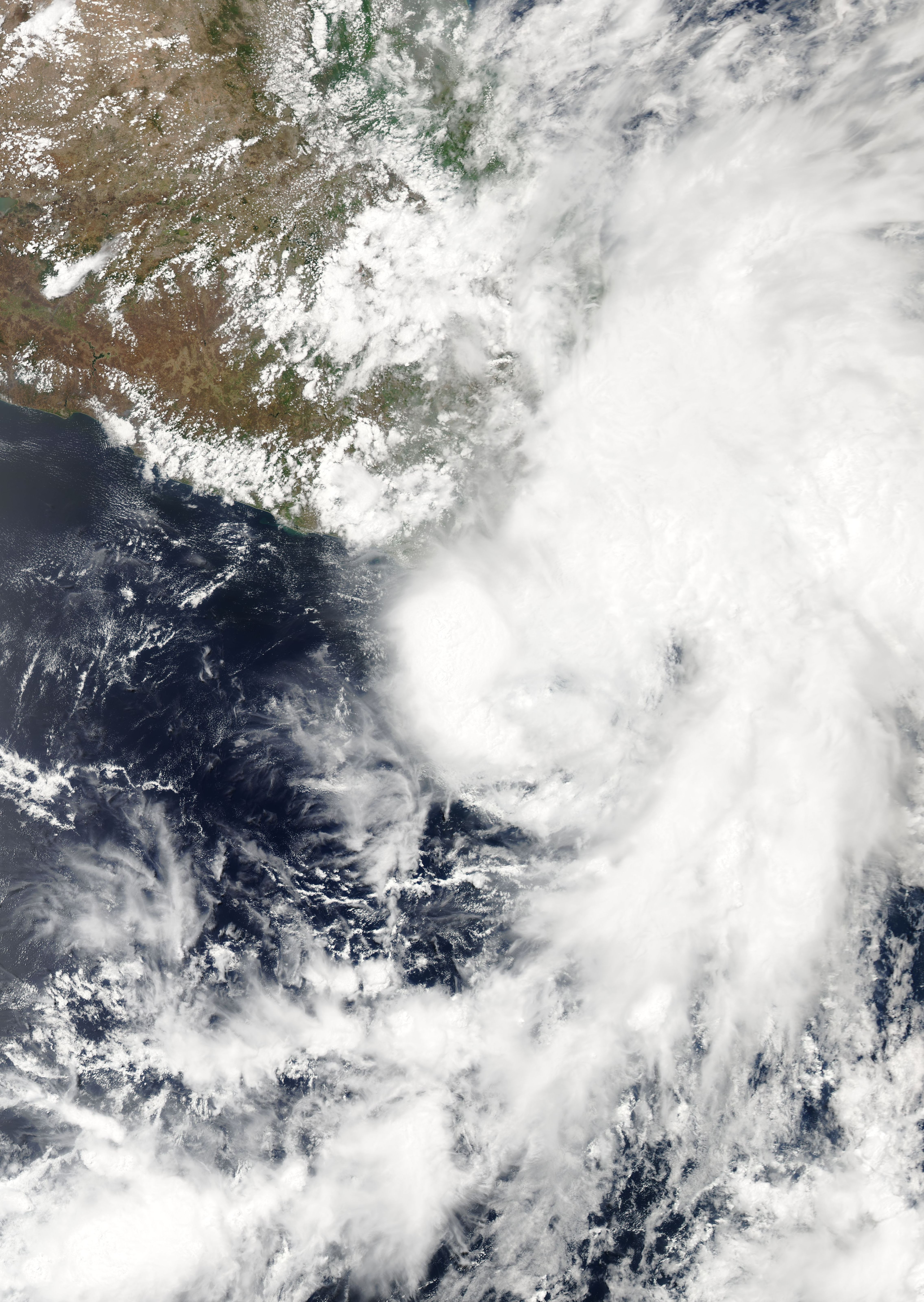 Tropical Storm Beatriz near the Pacific coast of southern Mexico at 20:15 UTC on 1 June 2017. The maximum one-minute sustained winds are approximately 40 knots.